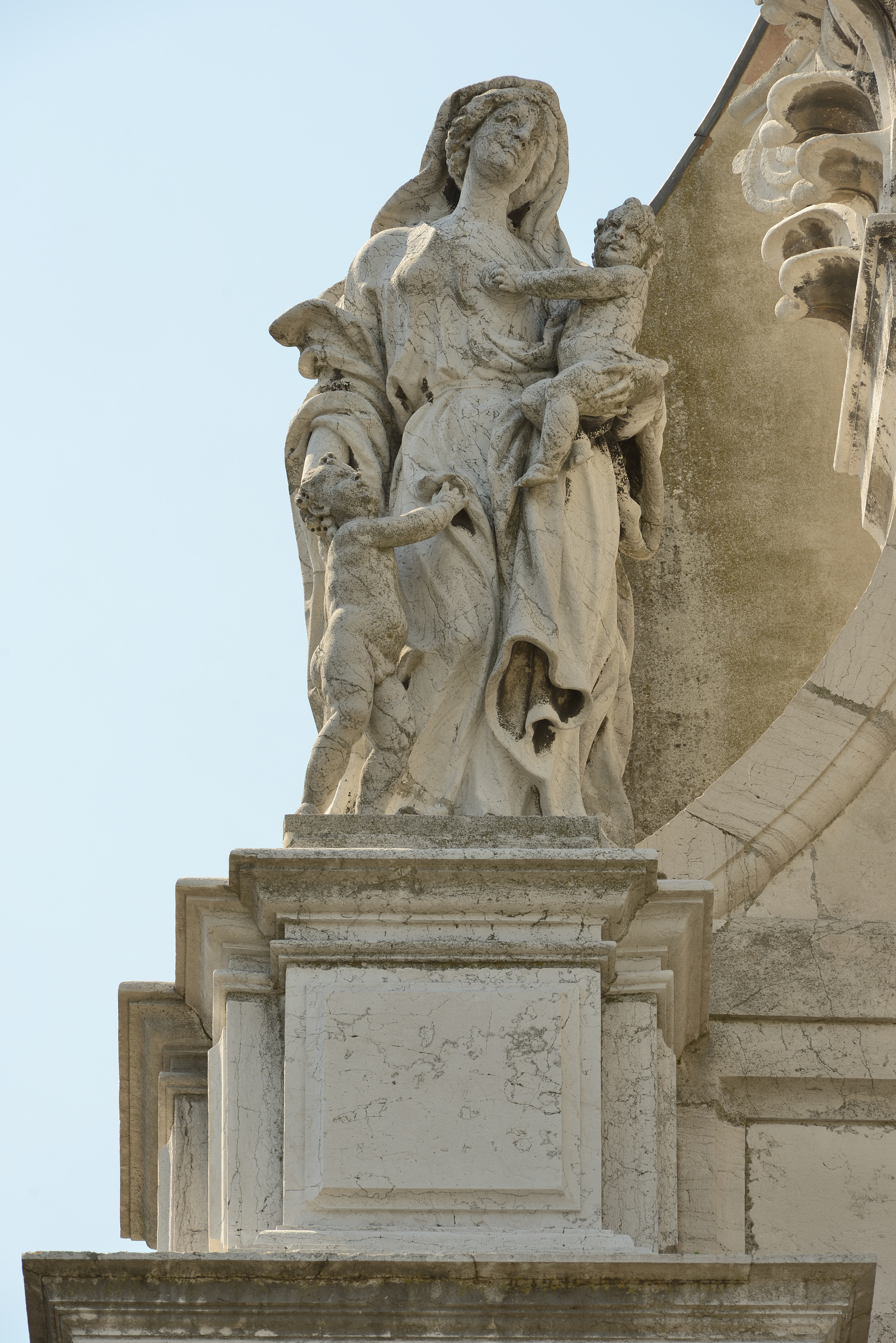 Paolo Callalo, Allegory of Charity on the facade of the "San Stae" church in Venice .